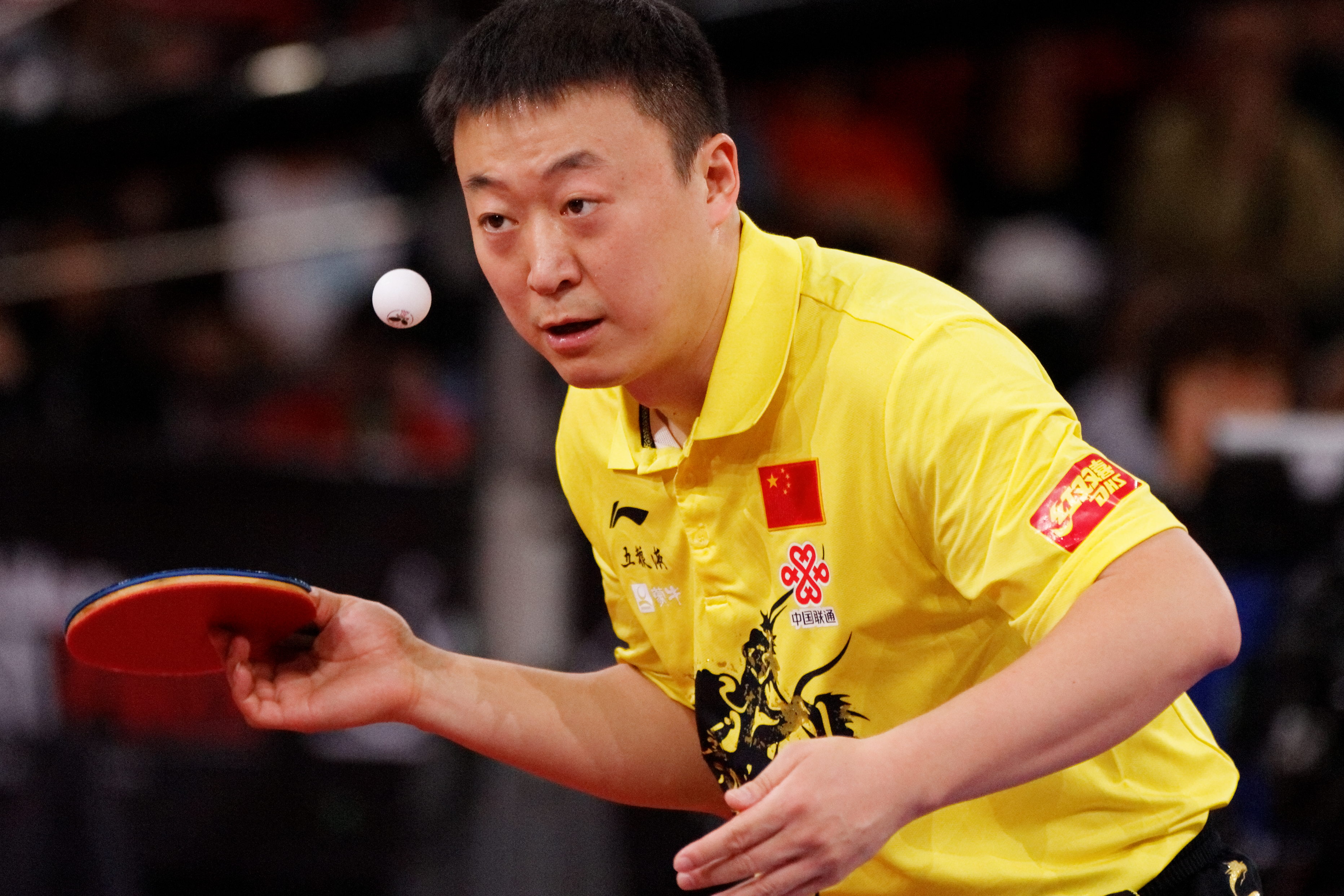 2013 World Table Tennis Championships, Paris. Men's Doubles Semifinals. Hao Shuai - Ma Lin vs Seiya Kishikawa - Jun Mizutani. Ma Lin.